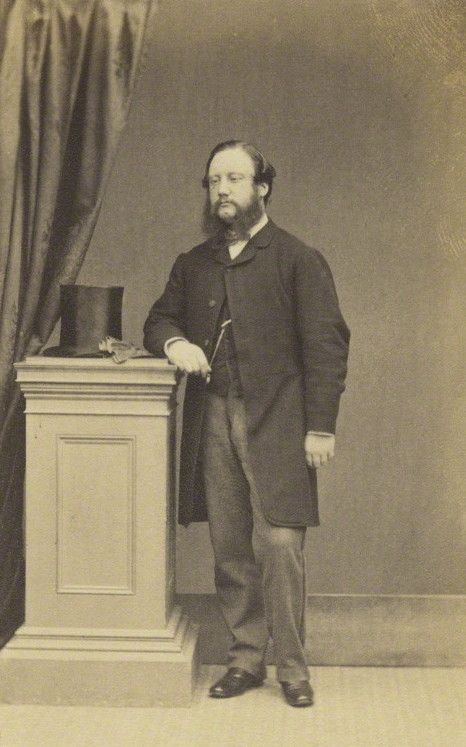 A photograph of Sir John Esmonde, 10th Bt; an Irish politician who sat in the British House of Commons for 25 years.